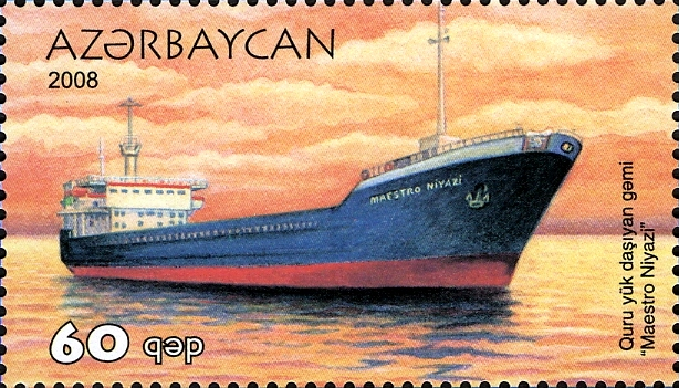 150th Anniversary of the Caspian Shipping Company - "Maestro Niyazi"